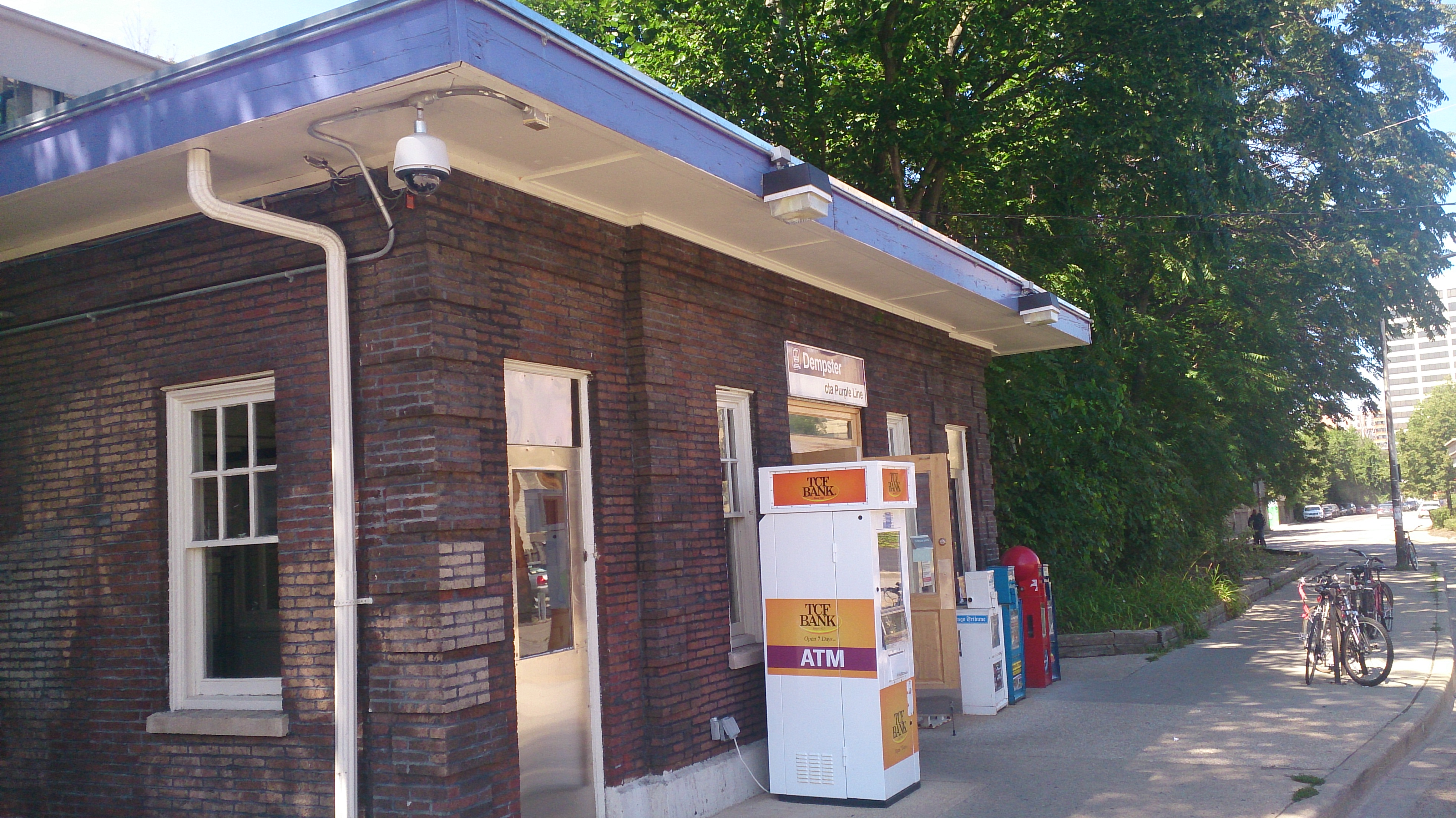 Entranve to the Dempster station of Chicago 'L' in Evanston